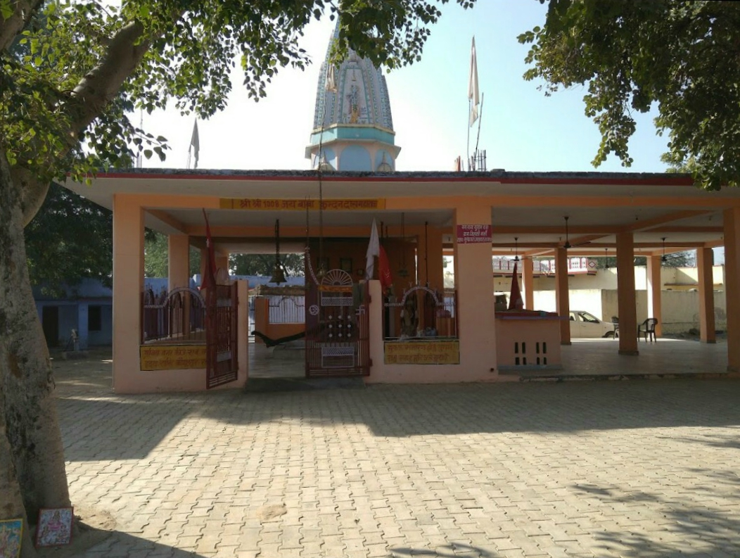 TEMPLE OF BABA KUNDAN DAS JI AHARAJ